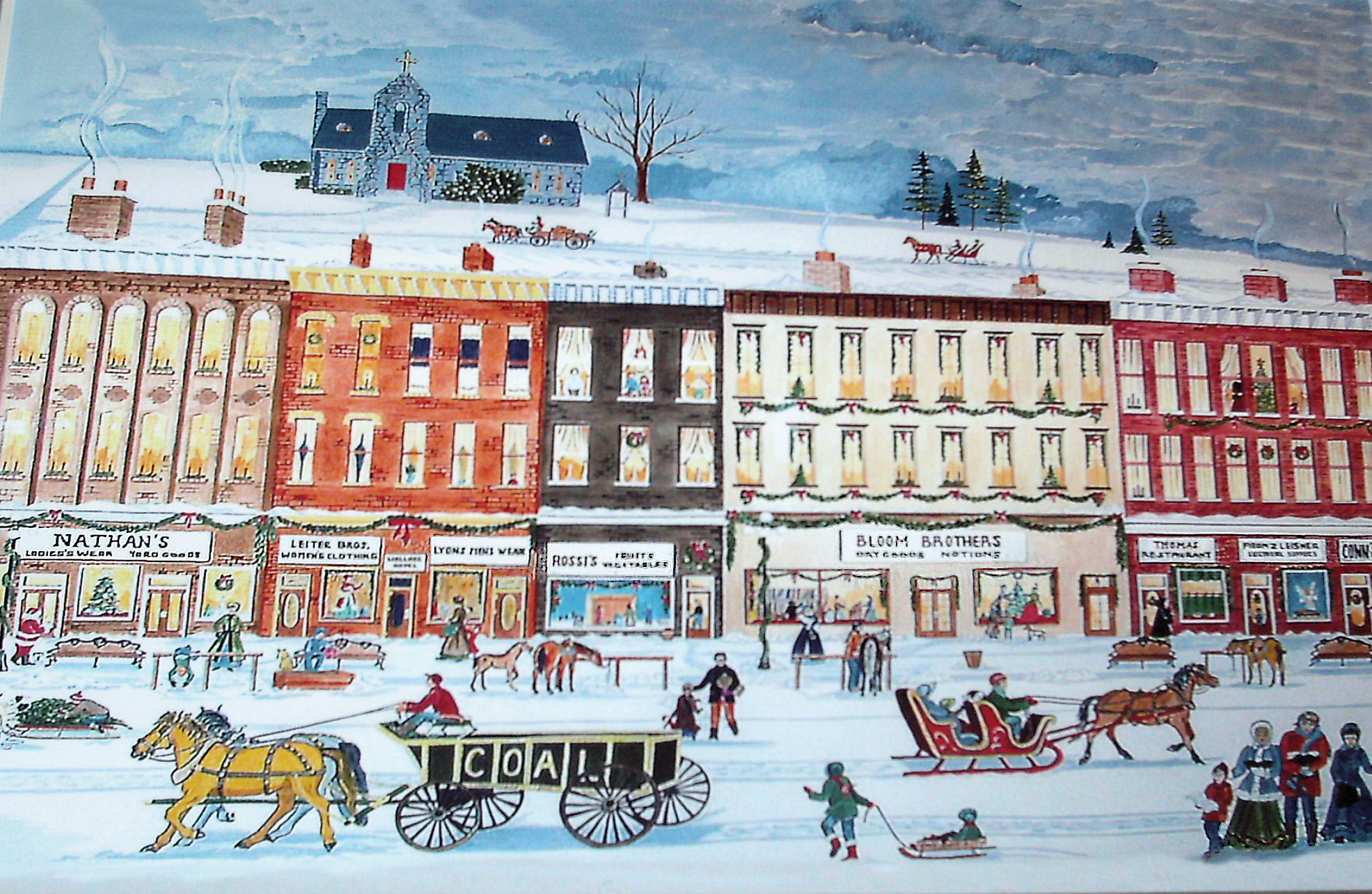 Bloom Brothers Chambersburg's #3 location, 74 South Main, figures prominently in this painting at the Franklin County Heritage Center on the Square in downtown Chambersburg, Pennsylvania.